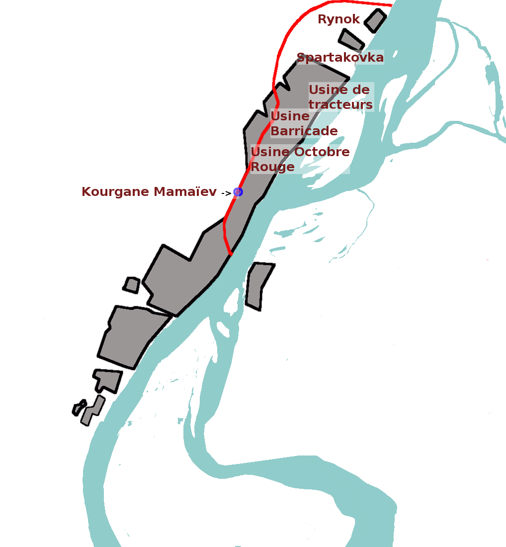 Battle of Stalingrad - German advance - 1942-10-13